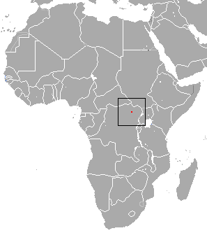 Polia's Shrew (Crocidura polia) range